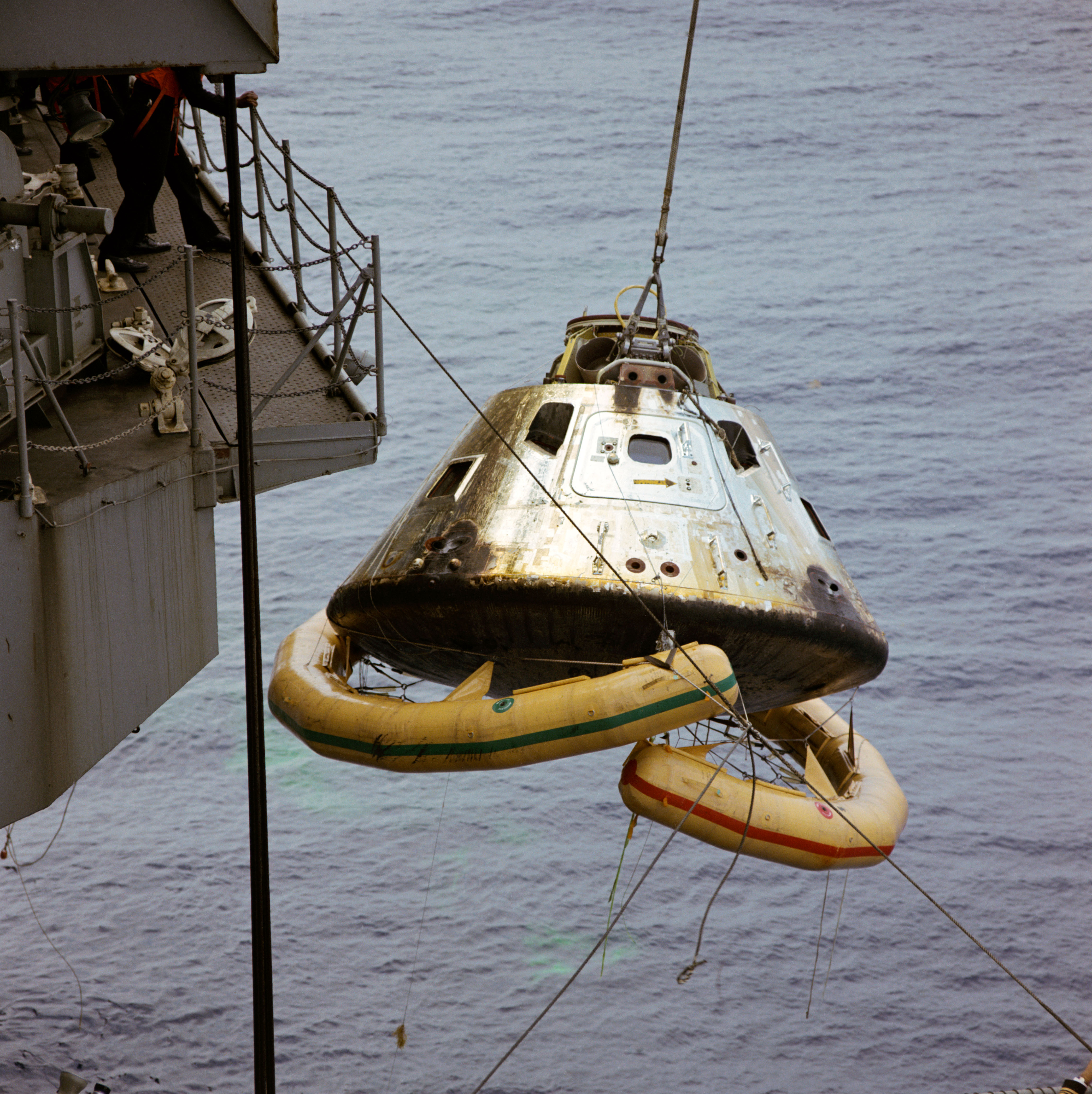 The Apollo 9 Command Module (CM), with flotation collar still attached, is hoisted aboard the prime recovery ship, USS Guadalcanal, during recovery operations. The Apollo 9 crew, astronauts James A. McDivitt, David R. Scott, and Russell L. Schweickart, had already been picked up earlier by helicopter and flown to the dock of the carrier. Splashdown occurred at 12:00:53 p.m. (EST), March 13, 1969, only 4.5 nautical miles from the aircraft carrier, to conclude a successful 10-day Earth-orbital space mission.